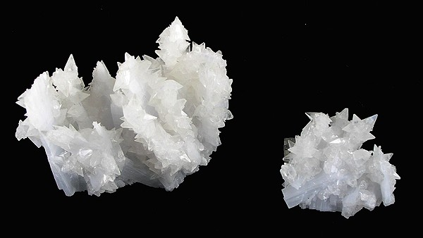 Anhydrite, Calcite Locality: Naica, Municipio de Saucillo, Chihuahua, Mexico (Locality at ) Size: 8.4 x 5.9 x 4.7 cm, 4.4 x 4.4 x 1.5 cm. Two specimens of very pale sky-blue-grey blades of anhydrite, decorated with spiky, translucent calcite twins - beautiful combo and classic from Naica! Ex. Ydren Collection.